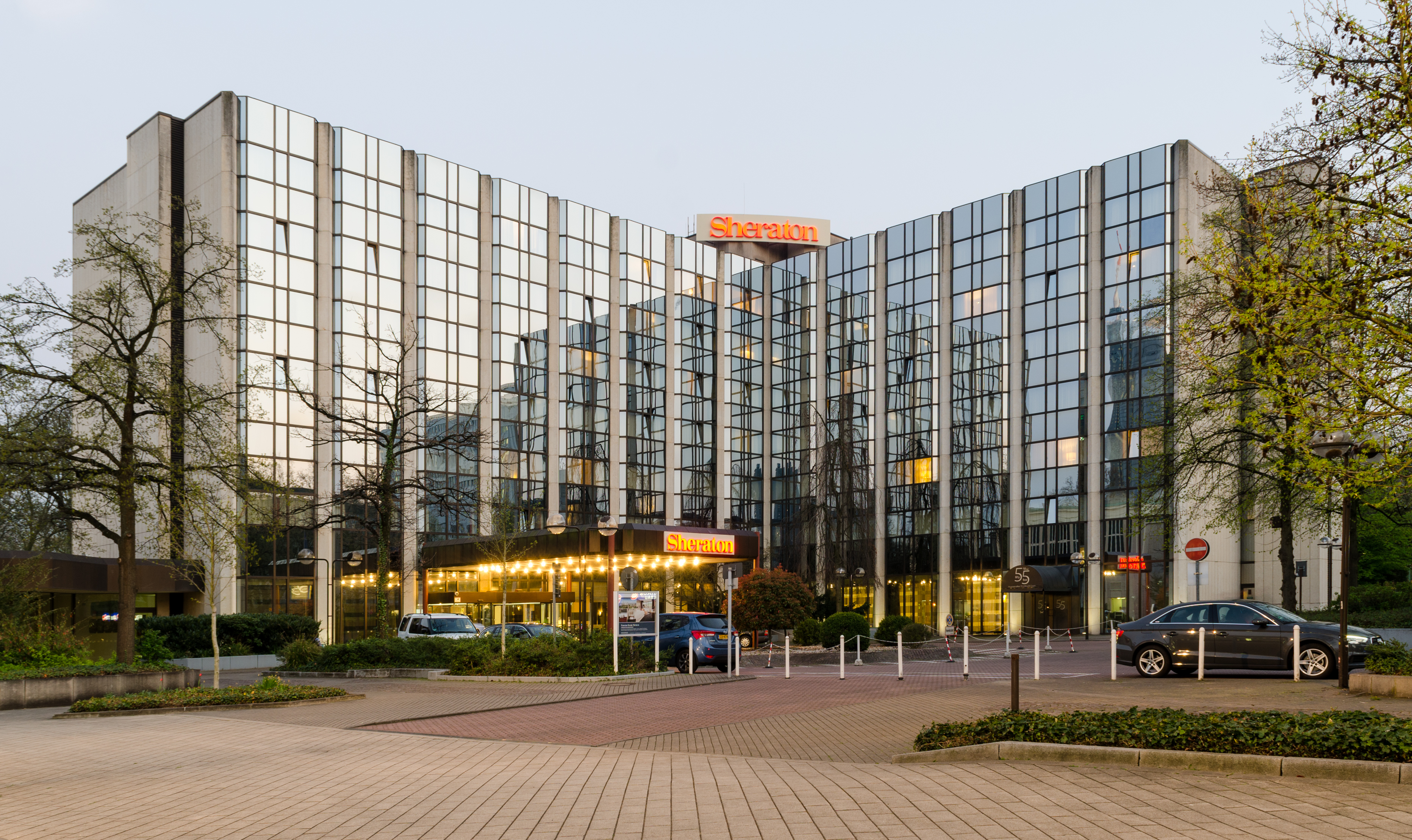 Essen (North Rhine-Westphalia, Germany) – district Südviertel – Sheraton Hotel in the evening